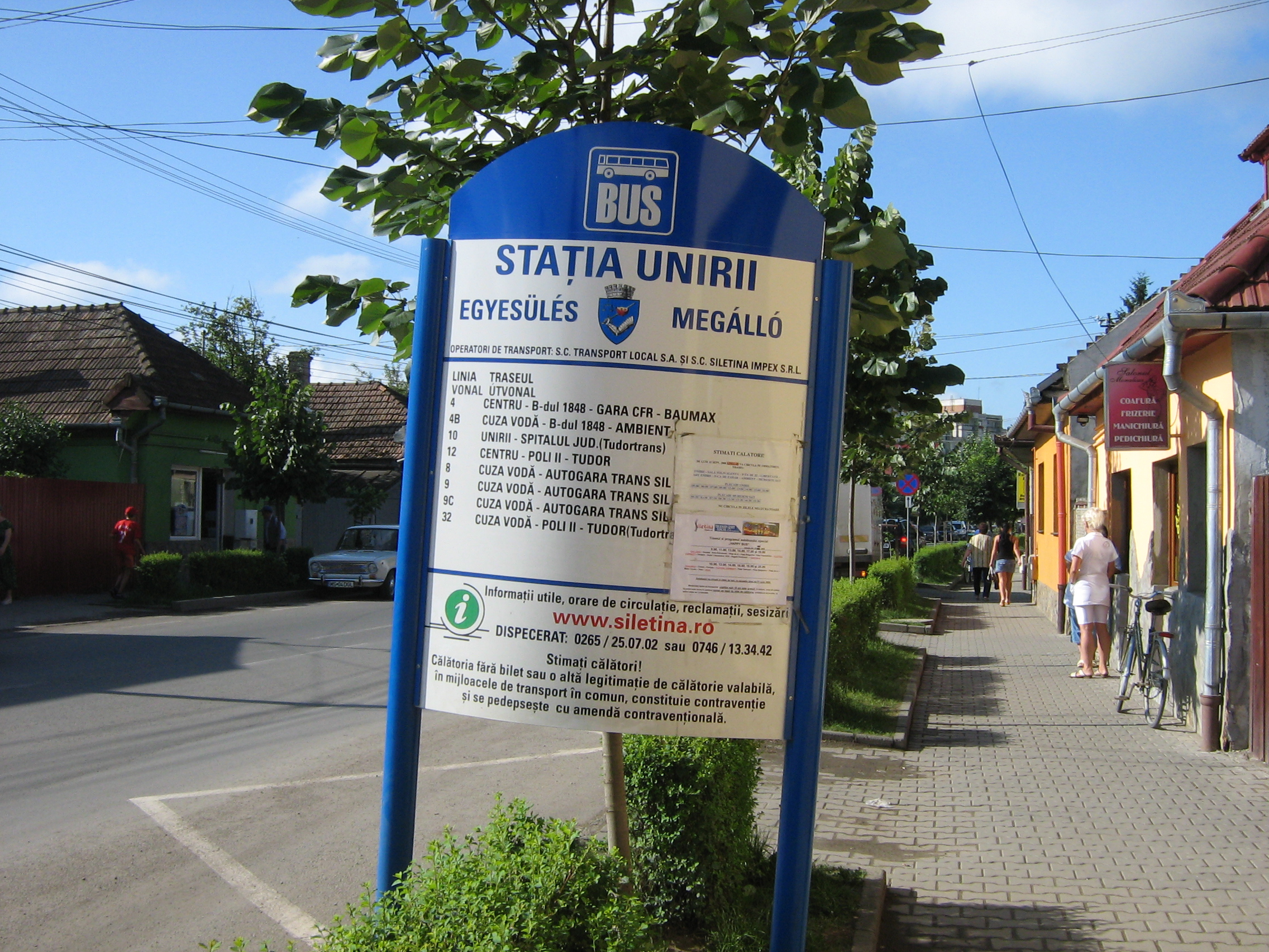 Bus stop in the Unirii quarter, Targu Mures